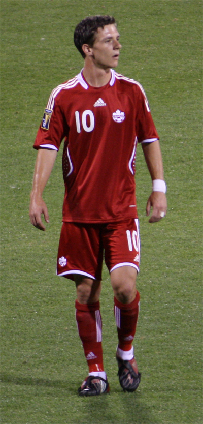 Real Salt Lake and Canadian midfielder/striker Will Johnson at the Canada - El Salvador CONCACAF Gold Cup match on July 7, 2009 at Crew Stadium in Columbus, Ohio. Photo by uploader taken while somewhat intoxicated from the south stand with Canon Rebel XS (1000D) camera.